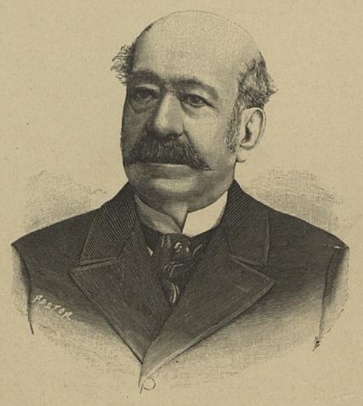 Portuguese businessman and journalist Tomás Quintino Antunes (1820-1898) in O Occidente (1898)